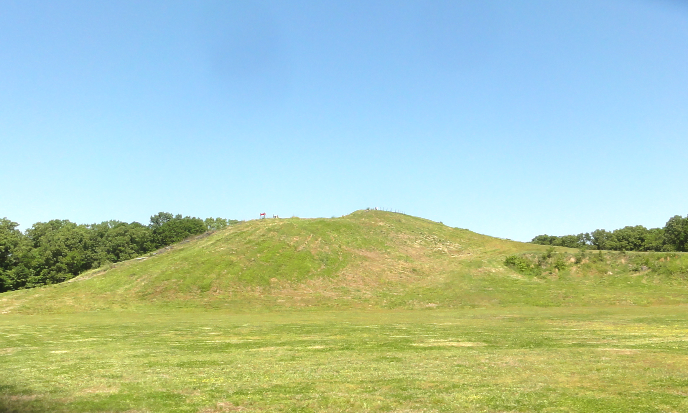 "Poverty Point" archaeological site, Louisiana. "Bird Mound".